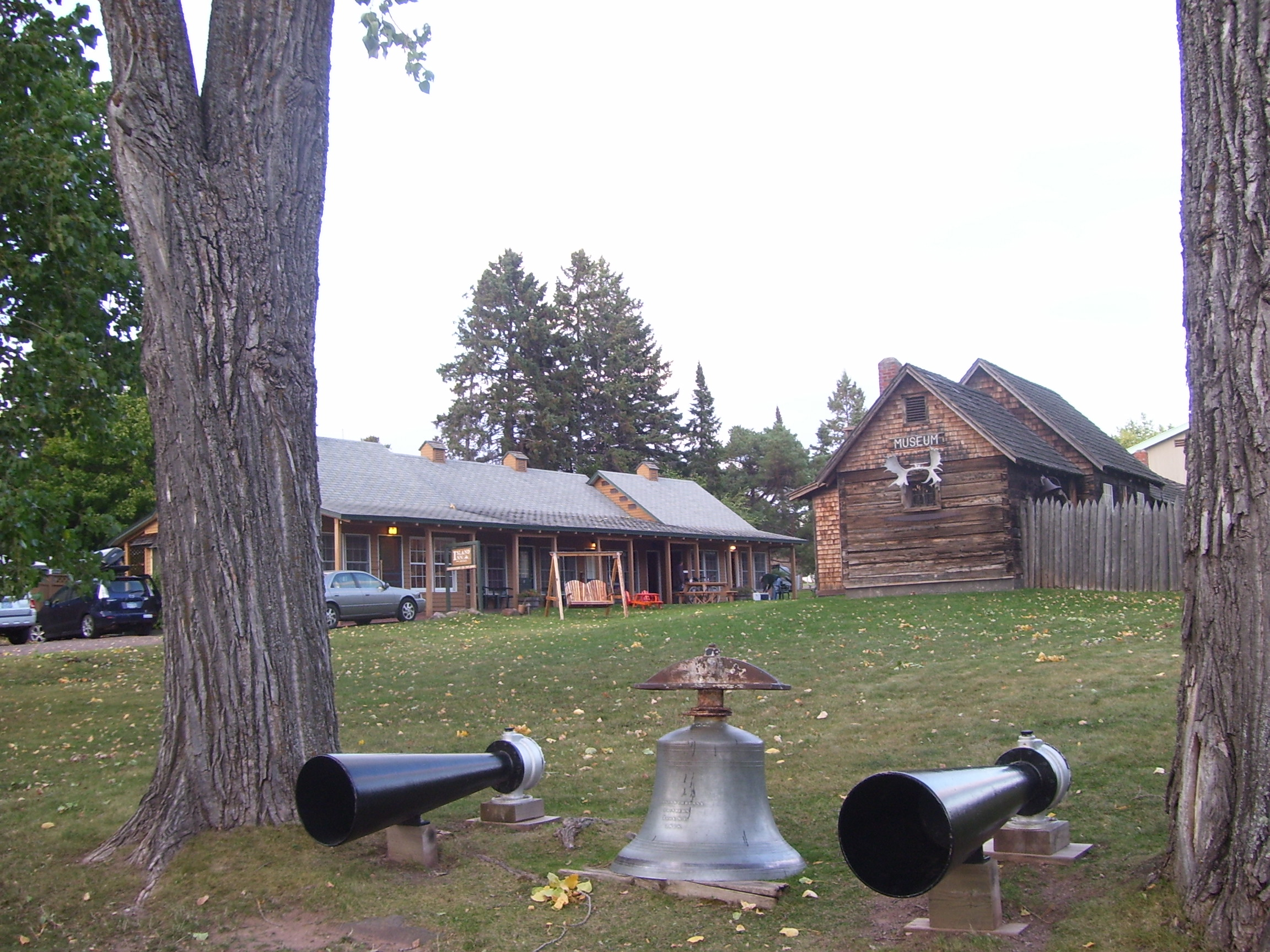 A photograph of the Madeline Island Historical Museum.